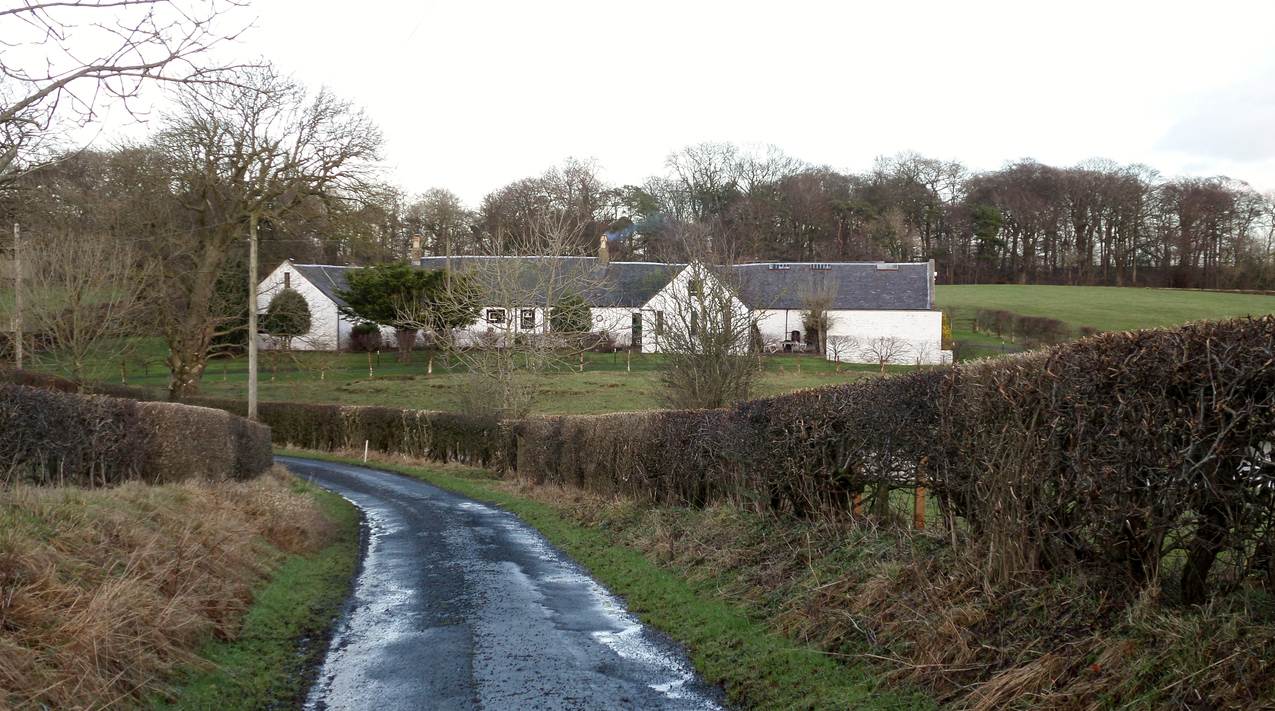 Kirkland Farm from the old Kilmaurs Manse, East Ayrshire, Scotland.